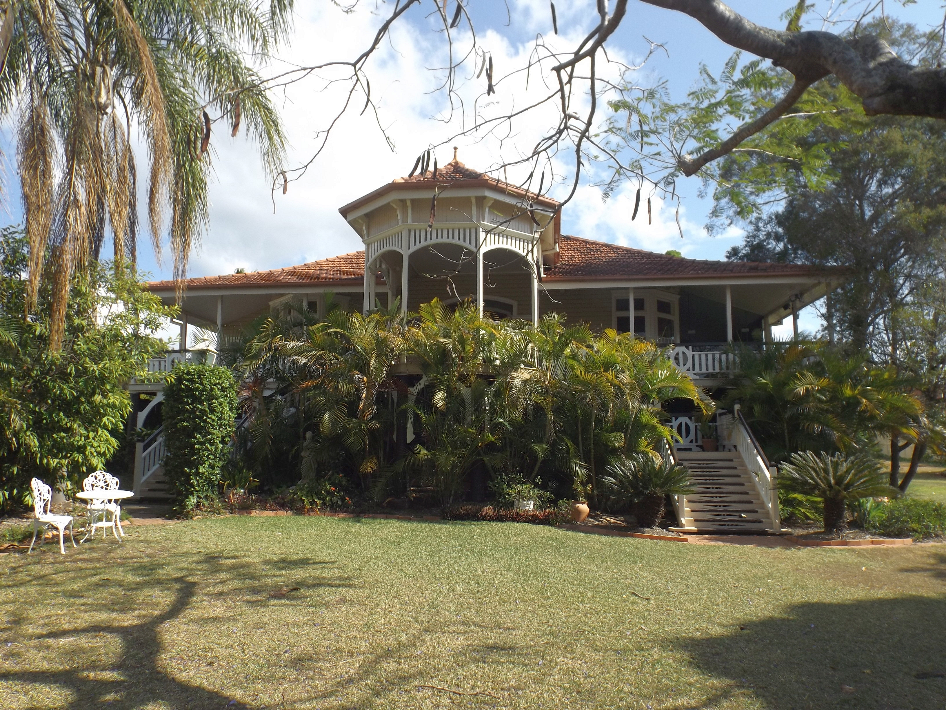 Photo of the front of the Ipswich Club House and its gardens in Ipswich, Queensland, Australia.